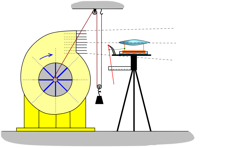 Konstantin Tsiolkovsky blower. The centrifugal fan is driven by a weight. The model is placed on a sort of boat whose recoil in a water tank drive a flexible needle, the needle indicating therefore the value of the aerodynamic drag.